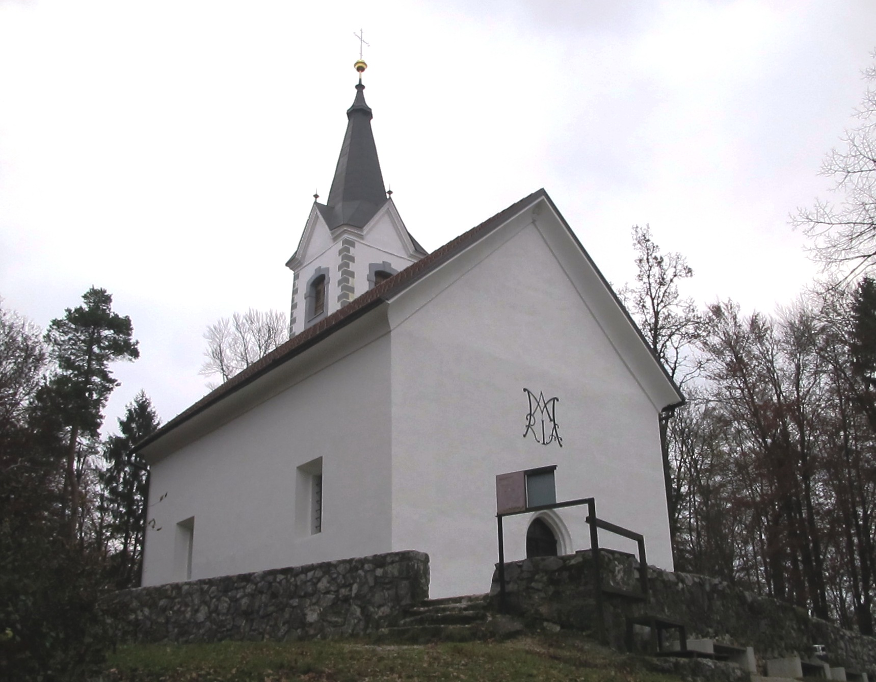 St. Mary Magdalene Church, Zgornja Slivnica, Municipality of Grosuplje, Slovenia